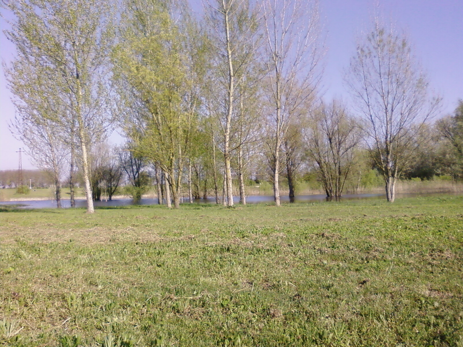 The river park of Lastra a Signa.